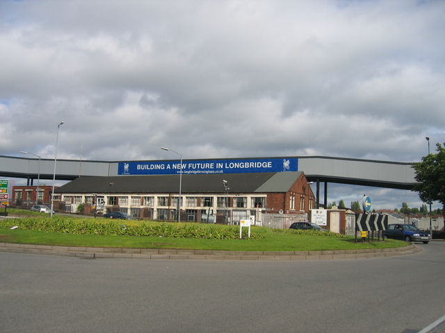 Longbridge roundabout. Signs of the regeneration efforts at the former Longbridge Car works - on the very long bridge linking different parts of the site across the Bristol Road.